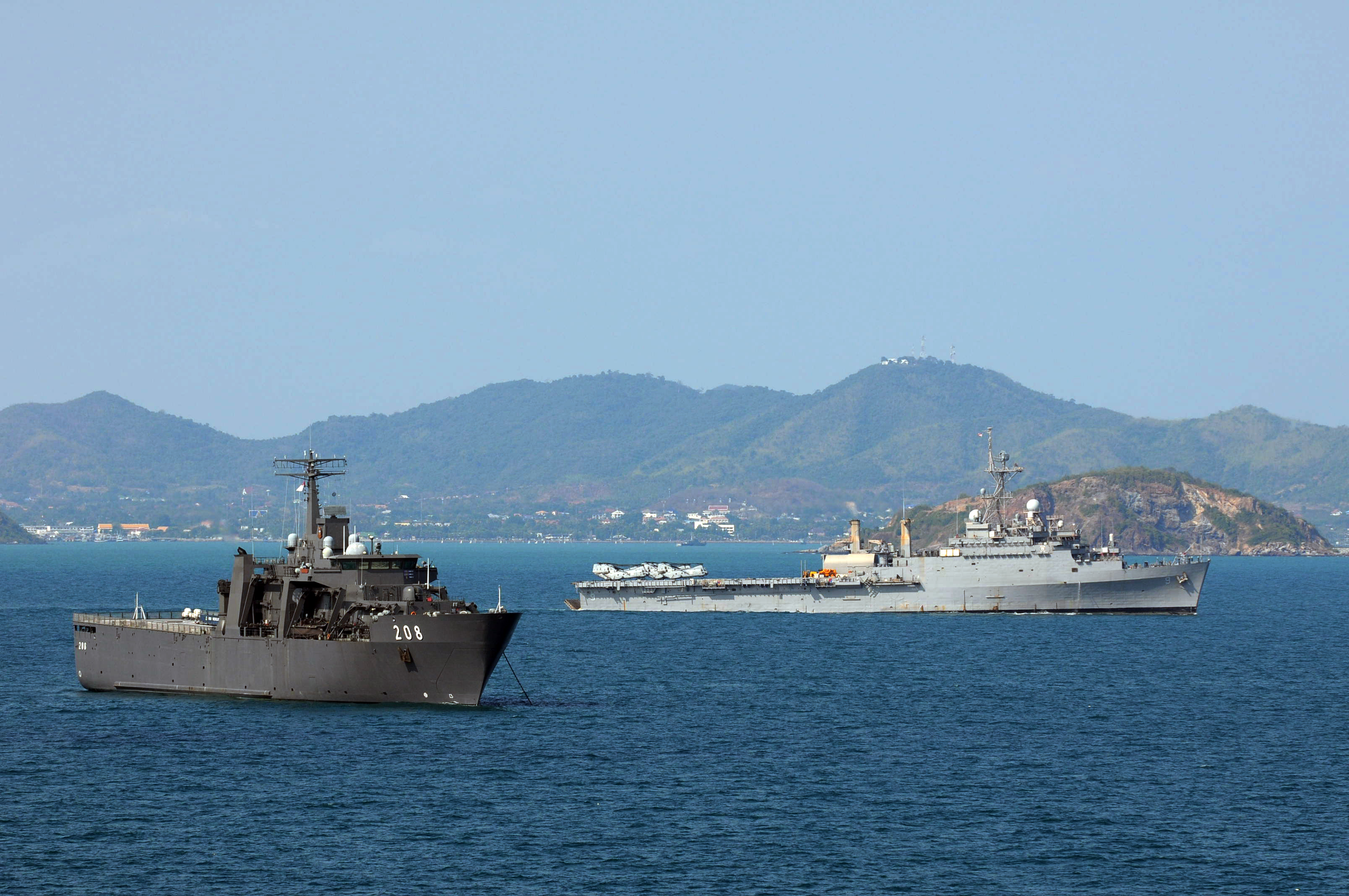 GULF OF THAILAND - The amphibious transport dock ship USS Denver (LPD 9) passes along side the Singapore navy endurance-class amphibious transport dock ship Resolution (LPDM 208) during Cobra Gold 2011. Denver is part of the forward-deployed Essex Amphibious Ready Group and is underway participating in Cobra Gold, a multinational military exercise co-sponsored by the U.S. and Thailand.